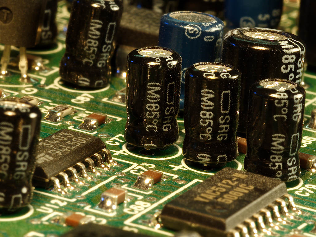 Close-up of a sound card PCB, showing electrolytic capacitors (most likely for AC coupling), SMT capacitors and resistors, and a YAC512 two-channel 16-bit DAC